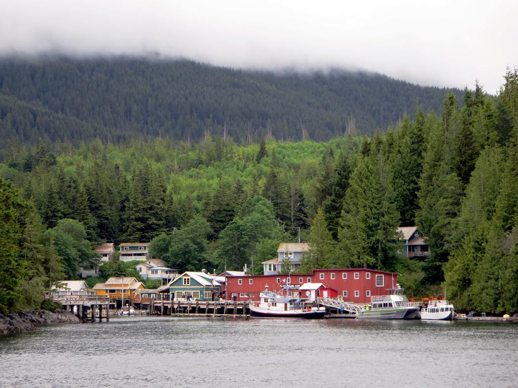 Whale watching tours are the main attraction at Telegraph Cove, British Columbia, Canada.